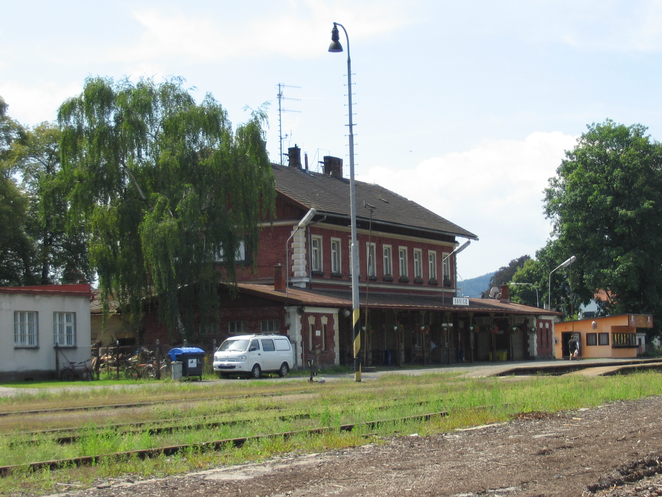 Railway station in Sušice, Plzeň Region, Czech Republic